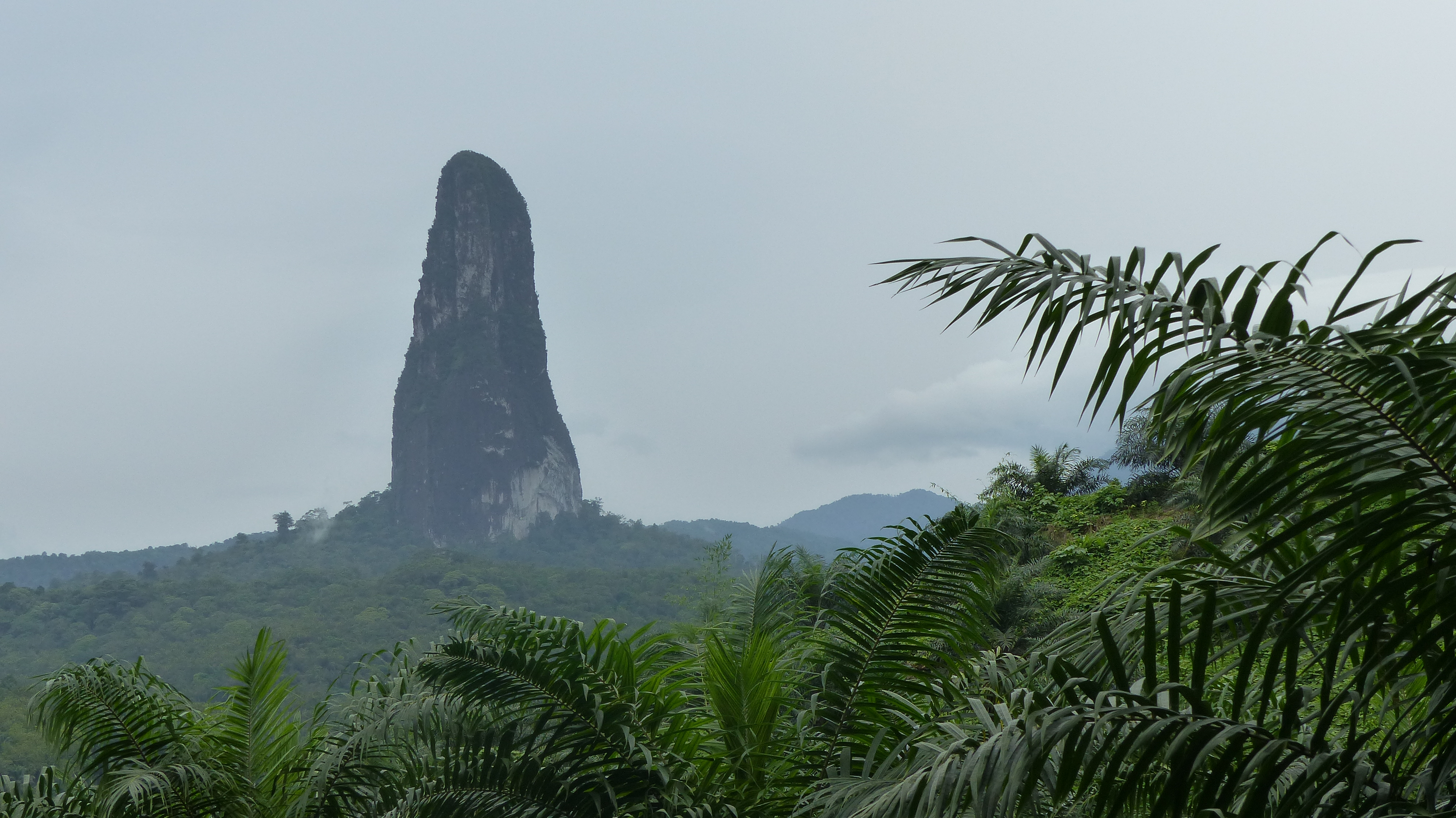 Photo of Pico Cão Grande on São Tomé taken 18/03/2014 during a voyage on the island.